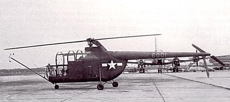 Firestone XR-9B, serial 6001, with C-74 Globemaster in background.